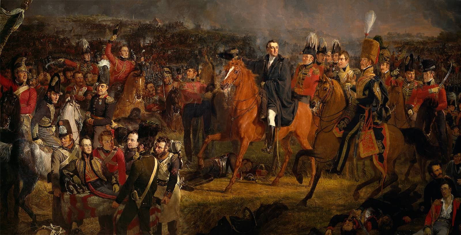 The Battle of Waterloo, 18 June 1815, detail showing the Duke of Wellington on horseback.